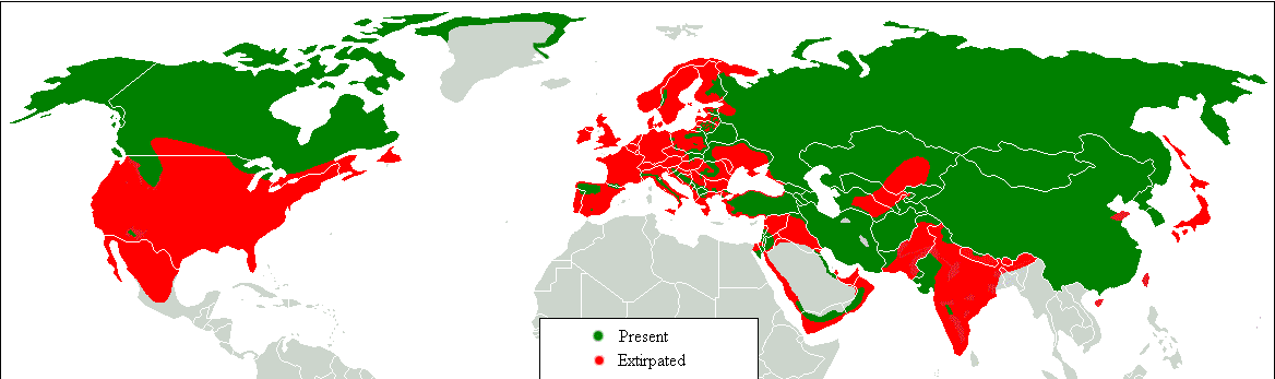 Range map. Green, present; red, former.